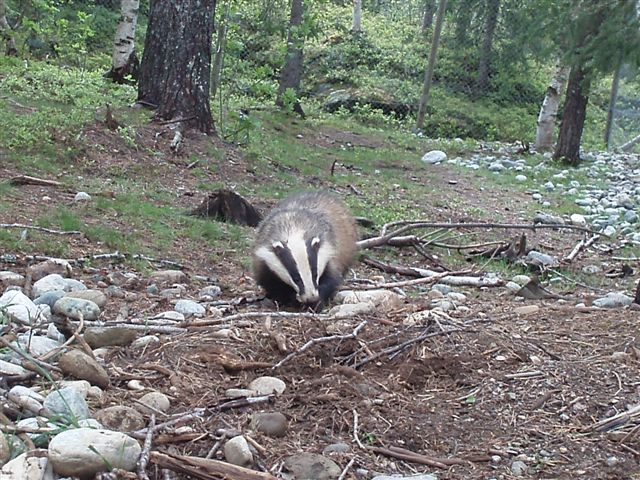 European Badger (Meles meles) (no: Grevling) from Namsskogan wildlife park, Norway